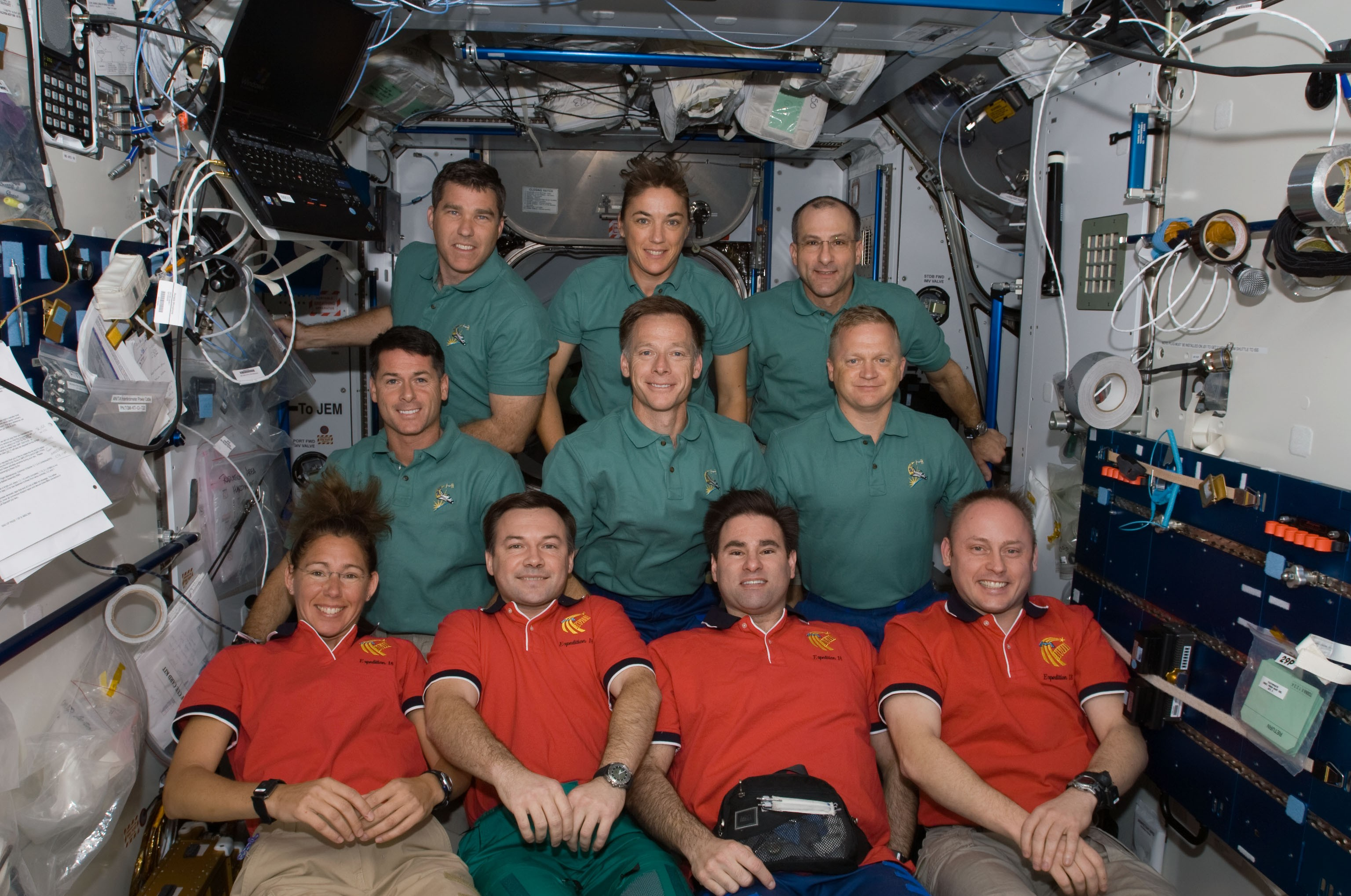 Following a space-to-Earth press conference, members of the International Space Station and Space Shuttle Endeavour crews posed for a group portrait on the orbital outpost. From left, bottom row, are astronaut Sandra Magnus, cosmonaut Yury Lonchakov, and astronauts Gregory Chamitoff and Michael Fincke. From left, middle row, are astronauts Shane Kimbrough, Chris Ferguson and Eric Boe. From left, top row, are astronauts Steve Bowen, Heidemarie Stefanyshin-Piper and Donald Pettit.